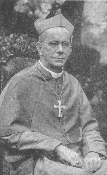 Frank Weston circa 1910-1920